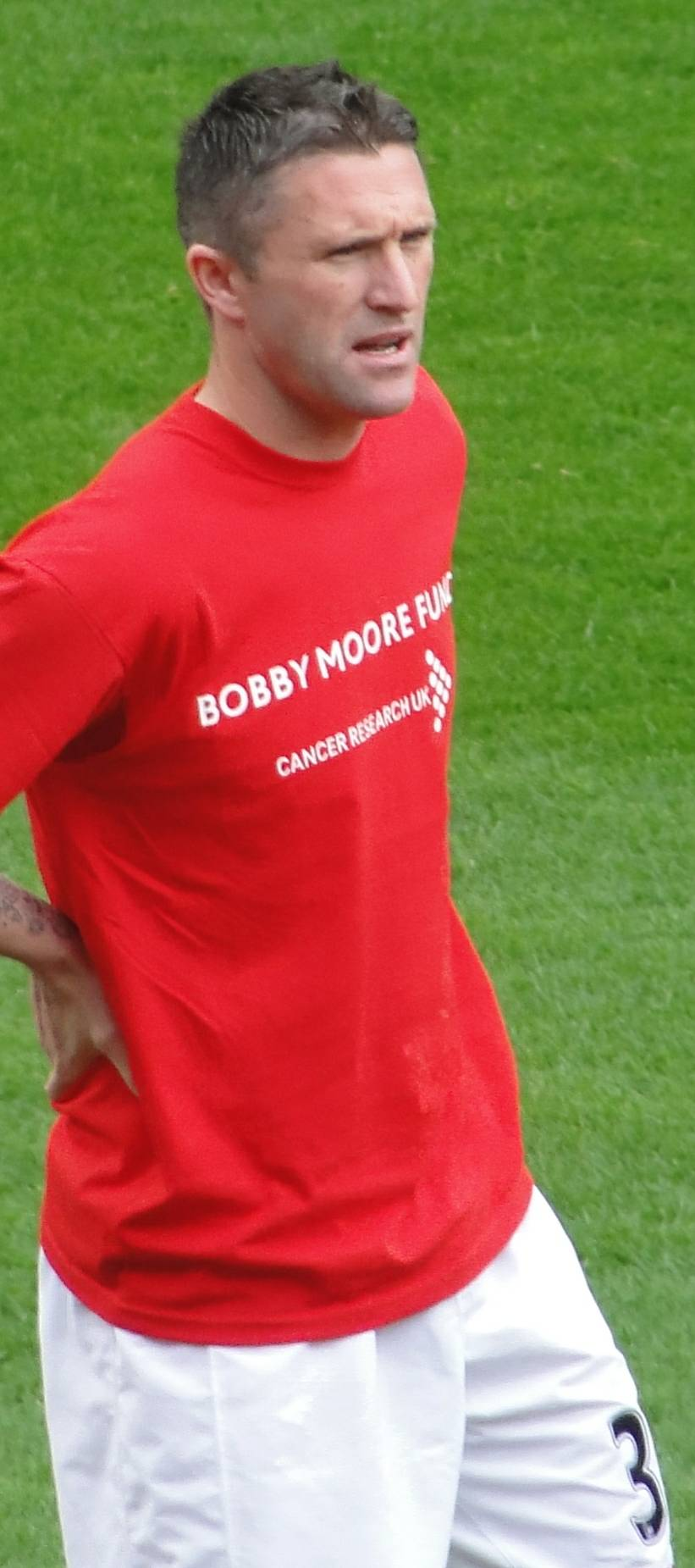 West Ham United player Robbie Keane warming-up before their game against Aston Villa on 16/April/2011 wearing a shirt supporting The Bobby Moore Fund